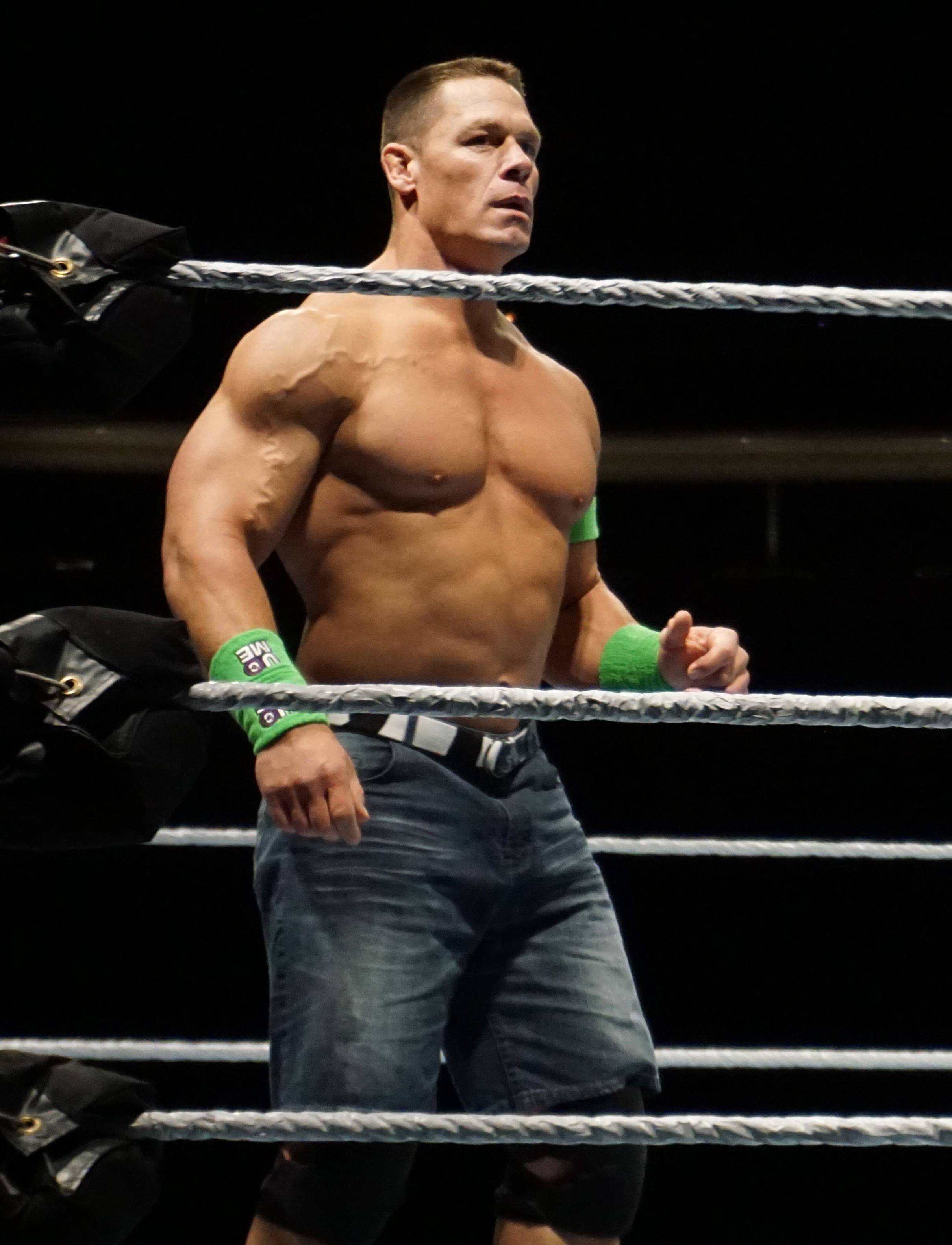 Cena at the WWE live show in Buffalo, NY on March 25th, 2018